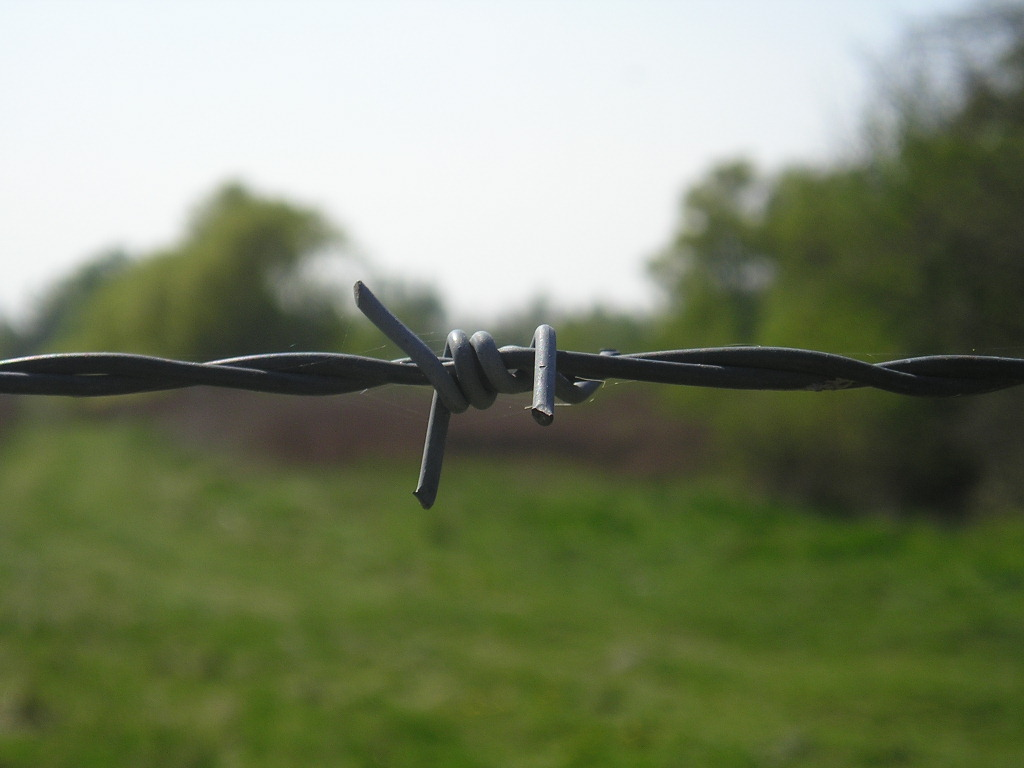 Barbed wire near Bratislava - former iron courtain